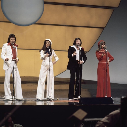 Brotherhood of Man at a rehearsal for the Eurovision Song Contest 1976.